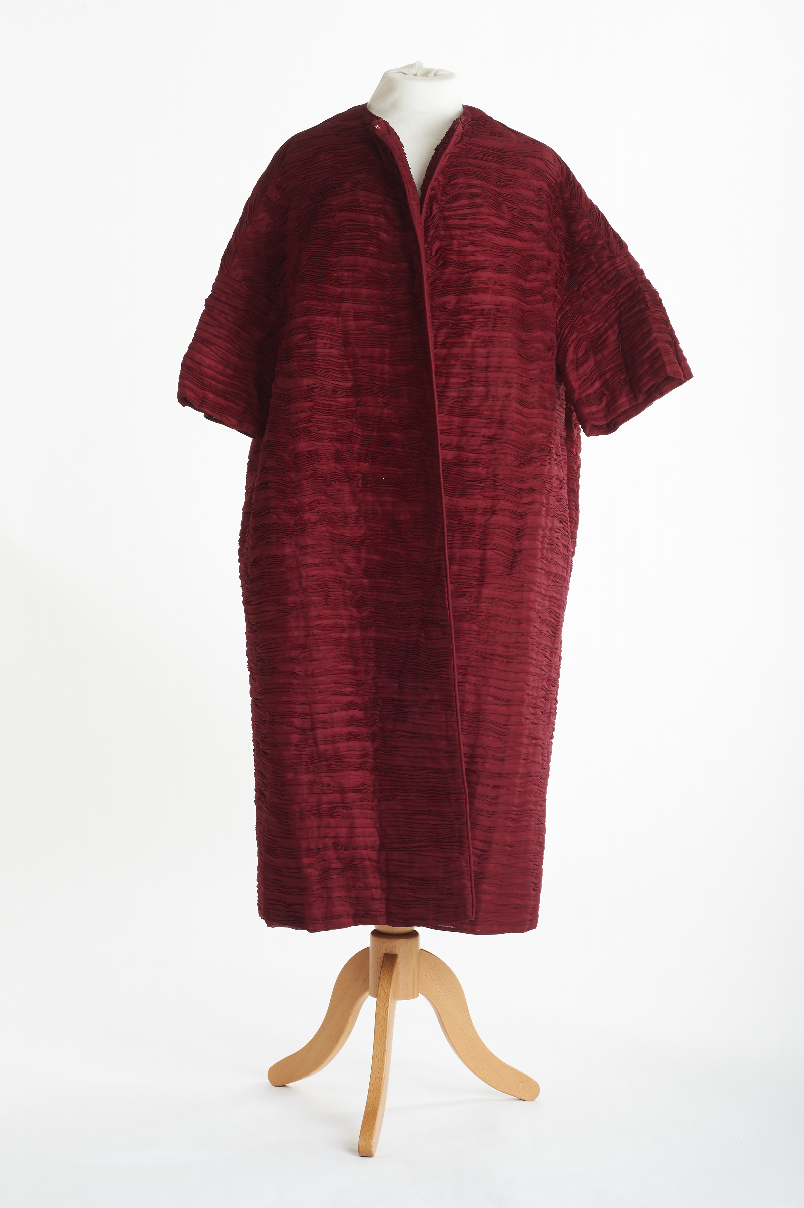 Burgundy coat of famous pleated linen and lined with a contrast pink colour. It is believed to be from 1957.